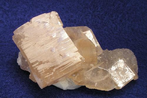 Apophyllite-(KOH), Calcite Locality: Wessels Mine (Wessel's Mine), Hotazel, Kalahari manganese fields, Northern Cape Province, South Africa (Locality at ) Size: 6.4 x 4.1 x 3.4 cm. An excellent cluster of blocky Hydroxyapophyllite on a matrix of gemmy fluorescent Calcite crystals. The Hydroxyapophyllites have superb luster (striated, no less), are partially gemmy, and an attractive light peach color. Note this is not the more common Fluor-variety of apophyllite. This is much rarer, and these crystals are among the worlds finest of this species. The largest crystal is a very significant 3.1 cm long and has superb lustre and translucency. A choice example of a rare species. Ex. Charlie Key.